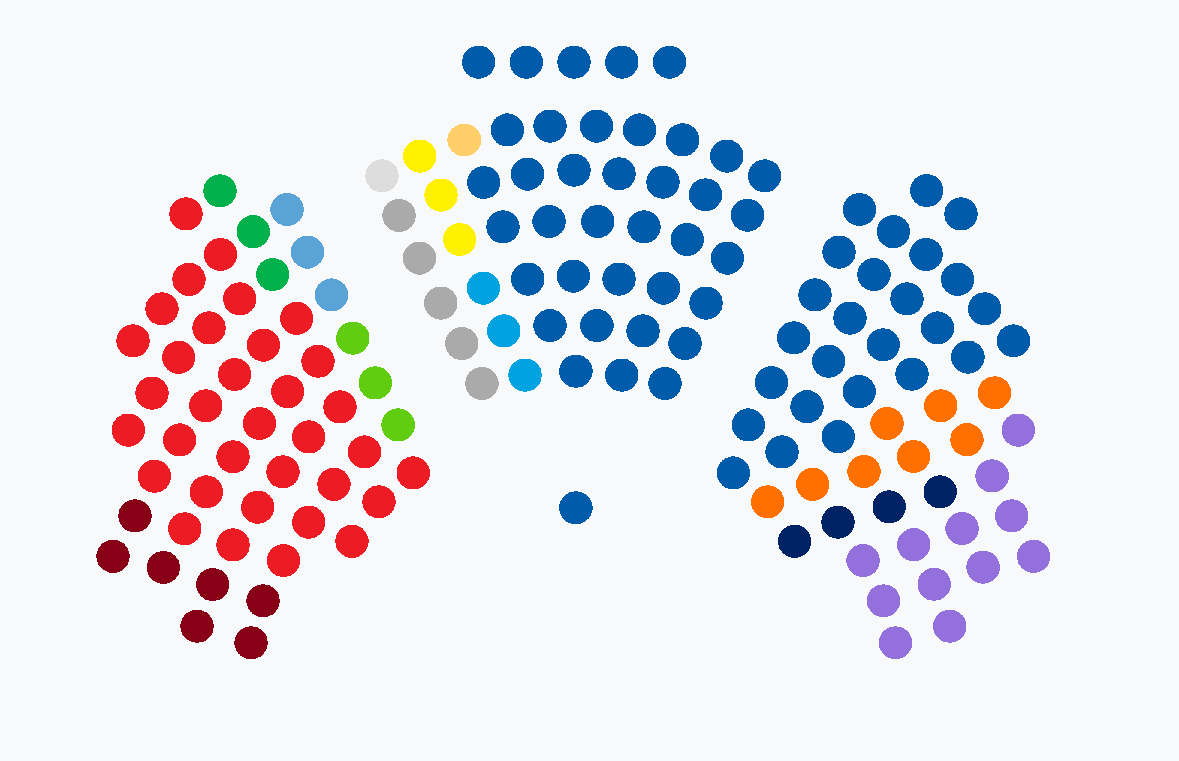 Distribution of seats in the Croatian Parliament